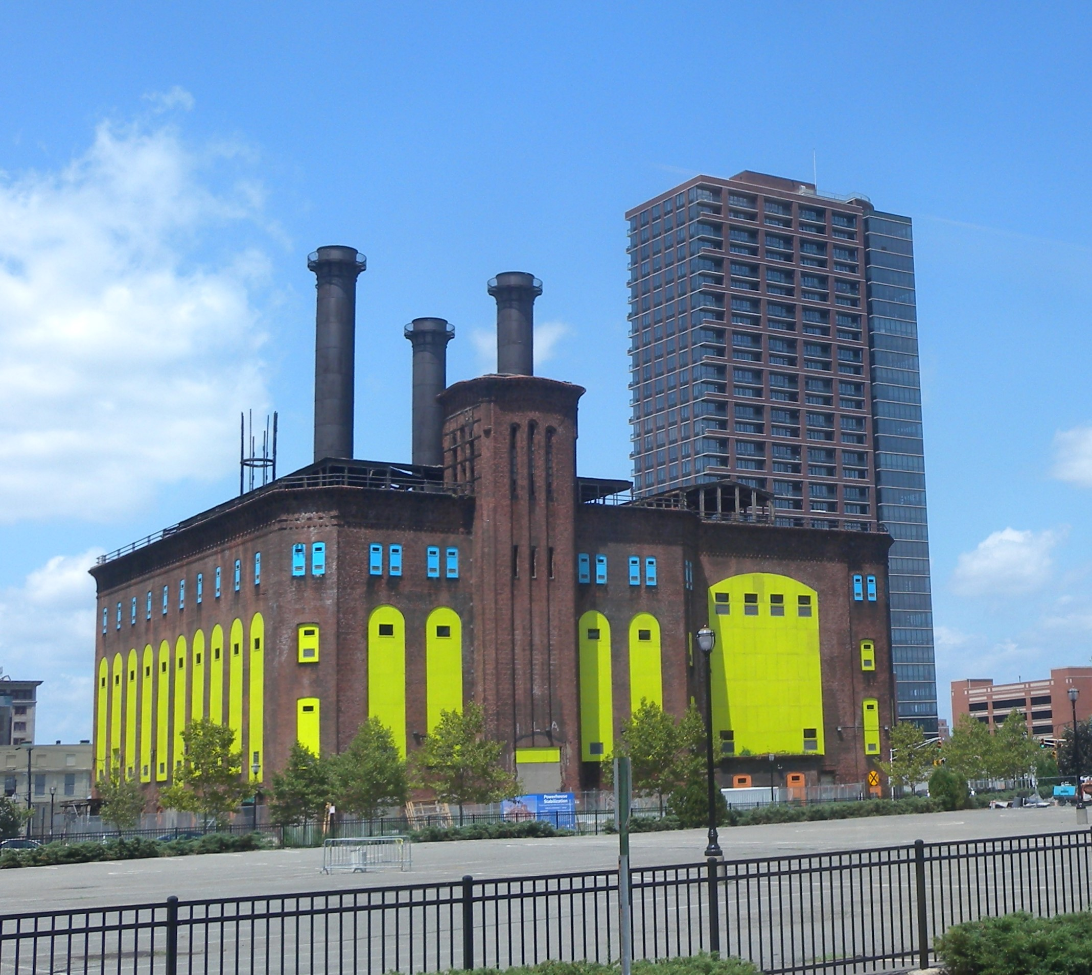 HBLR powerhouse yellow doors — Cropped version. View of a section of the HRWW (Hudson River Waterfront Walkway).